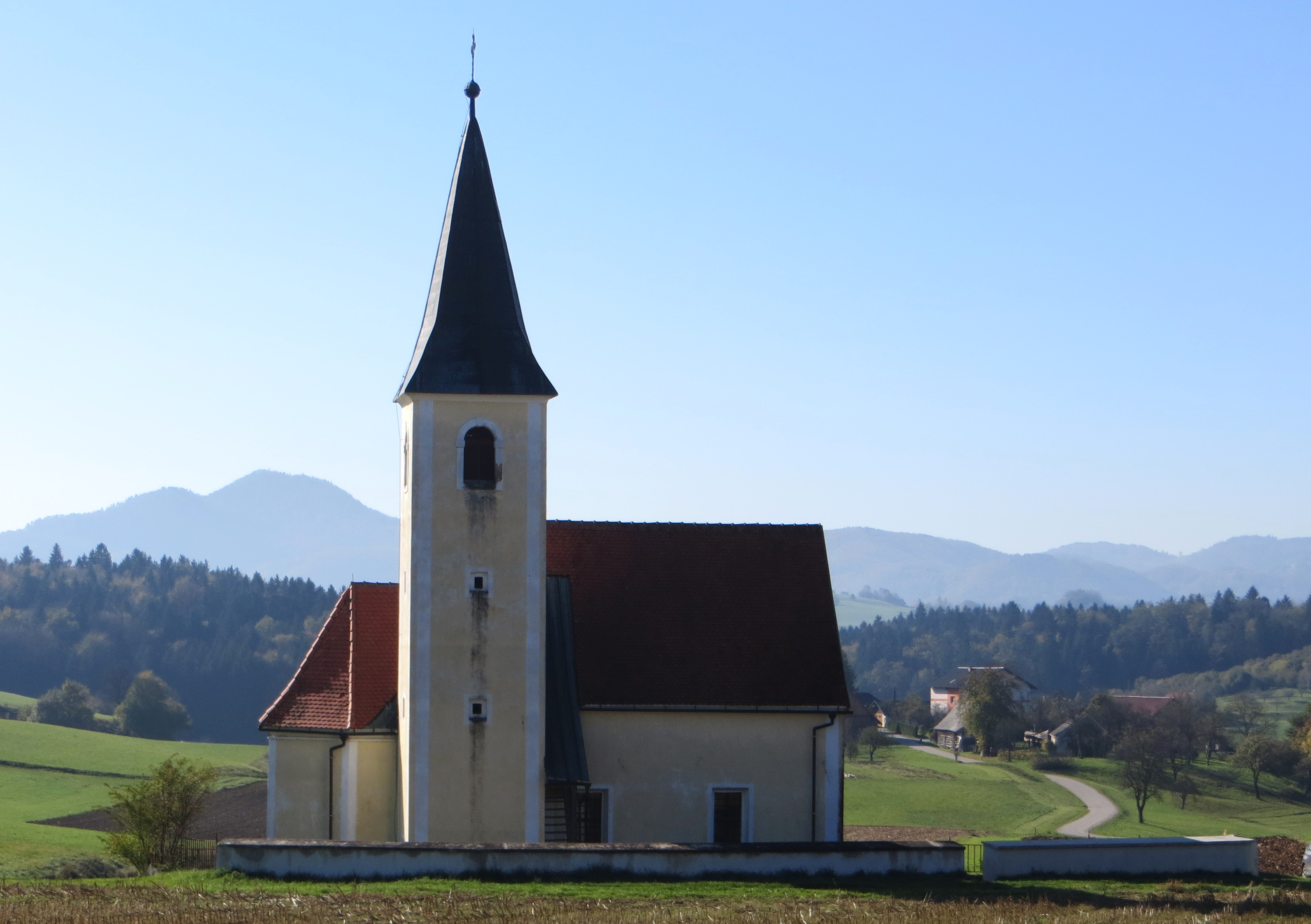 Saints Primus and Felicianus Church in Primož pri Šentjurju, Municipality of Šentjur, Slovenia